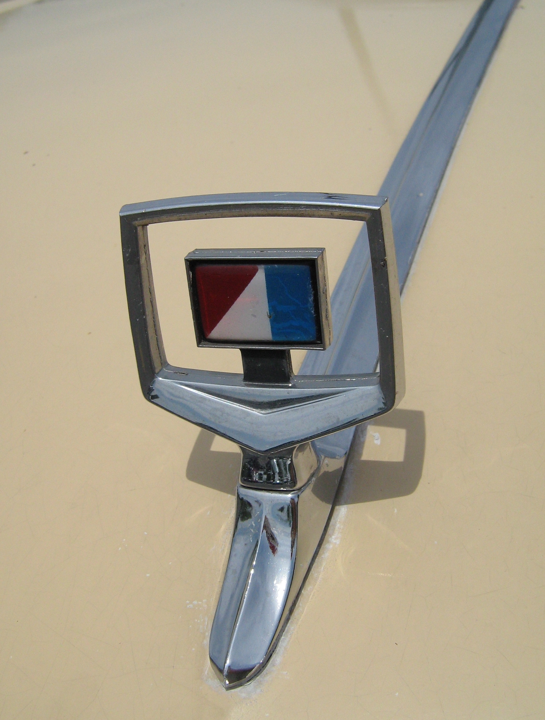 1981 AMC Concord four-door sedan by American Motors Corporation - Hood ornament. Picture taken at the "2010 AMC Invasion of Gettysburg" (Pennsylvania).